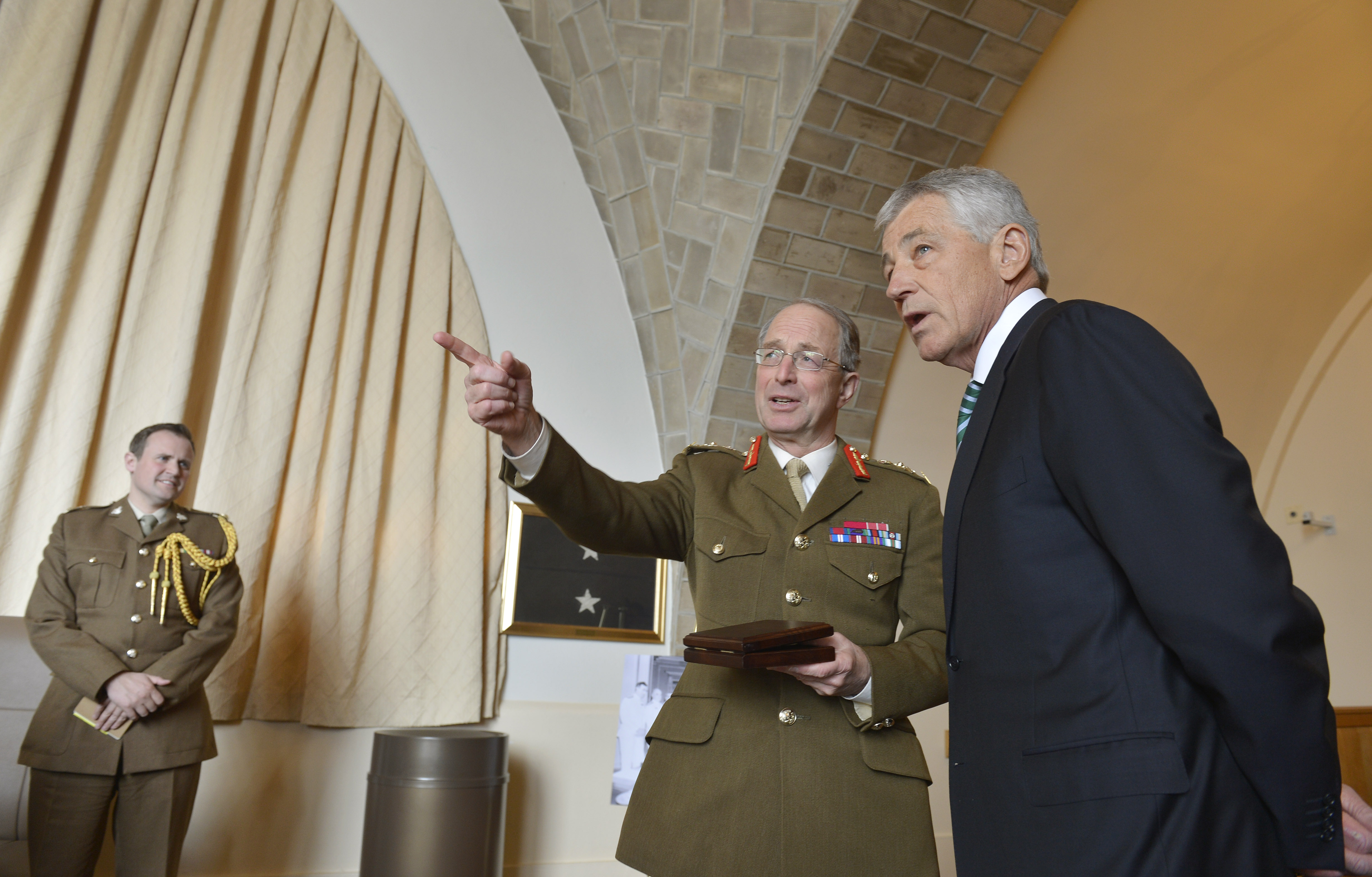 United Kingdom’s Chief of the Defence Staff Gen. Sir David Richards, center,introduces members of his senior staff to Secretary of Defense Chuck Hagel,right, at the Combined Chiefs of Staff Committee at Fort McNair, Washington, D.C., on March 27, 2013. Chairman of the Joint Chiefs of Staff General Martin E. Dempsey hosted the meeting, which was the first meeting of its kind since 1948 and was called to discuss strategic challenges the U.K. and U.S. militaries may face together in the future. DoD photo by Glenn Fawcett. (Released)